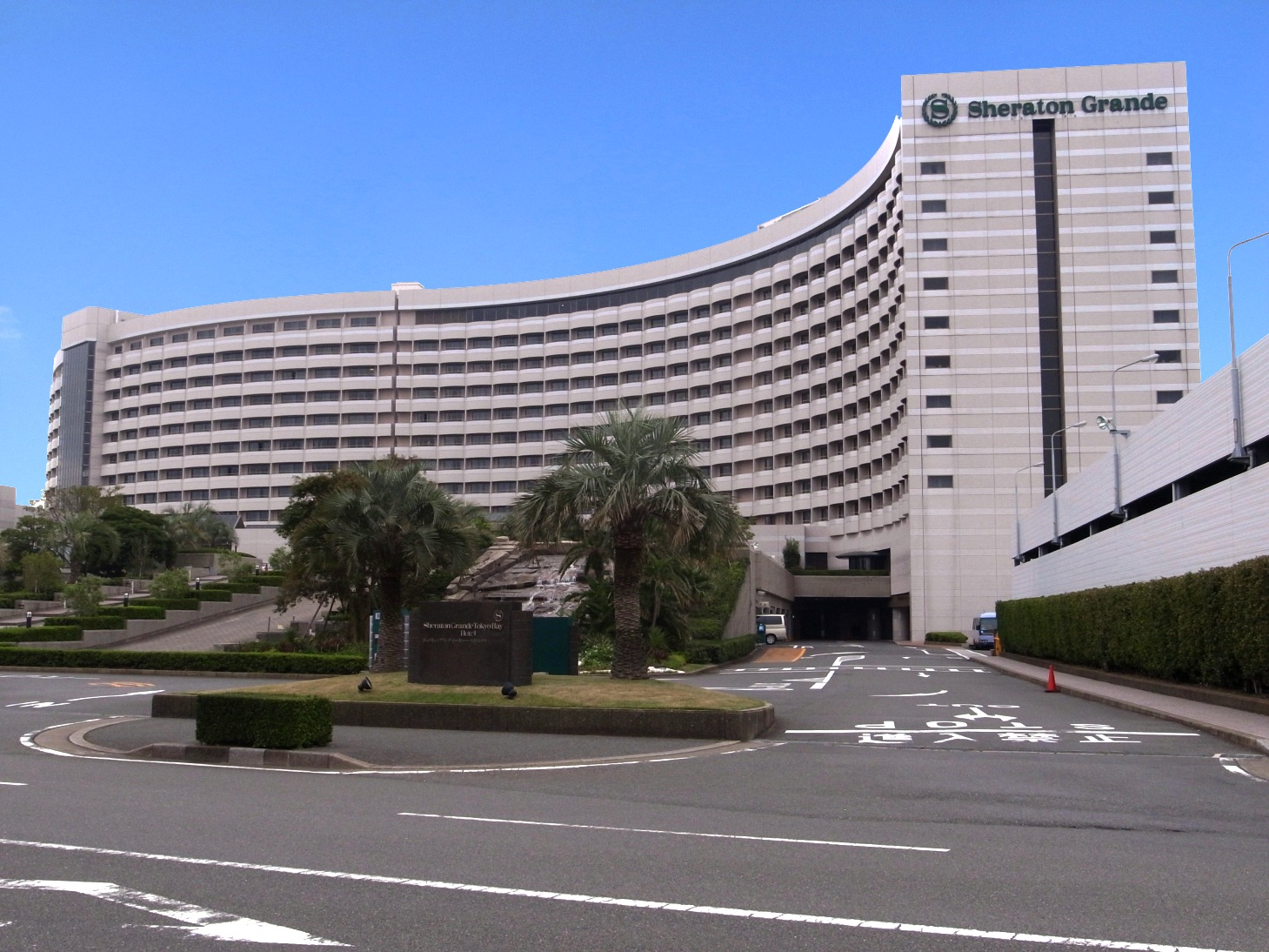 SheatonGrandeTokyoBayHotel